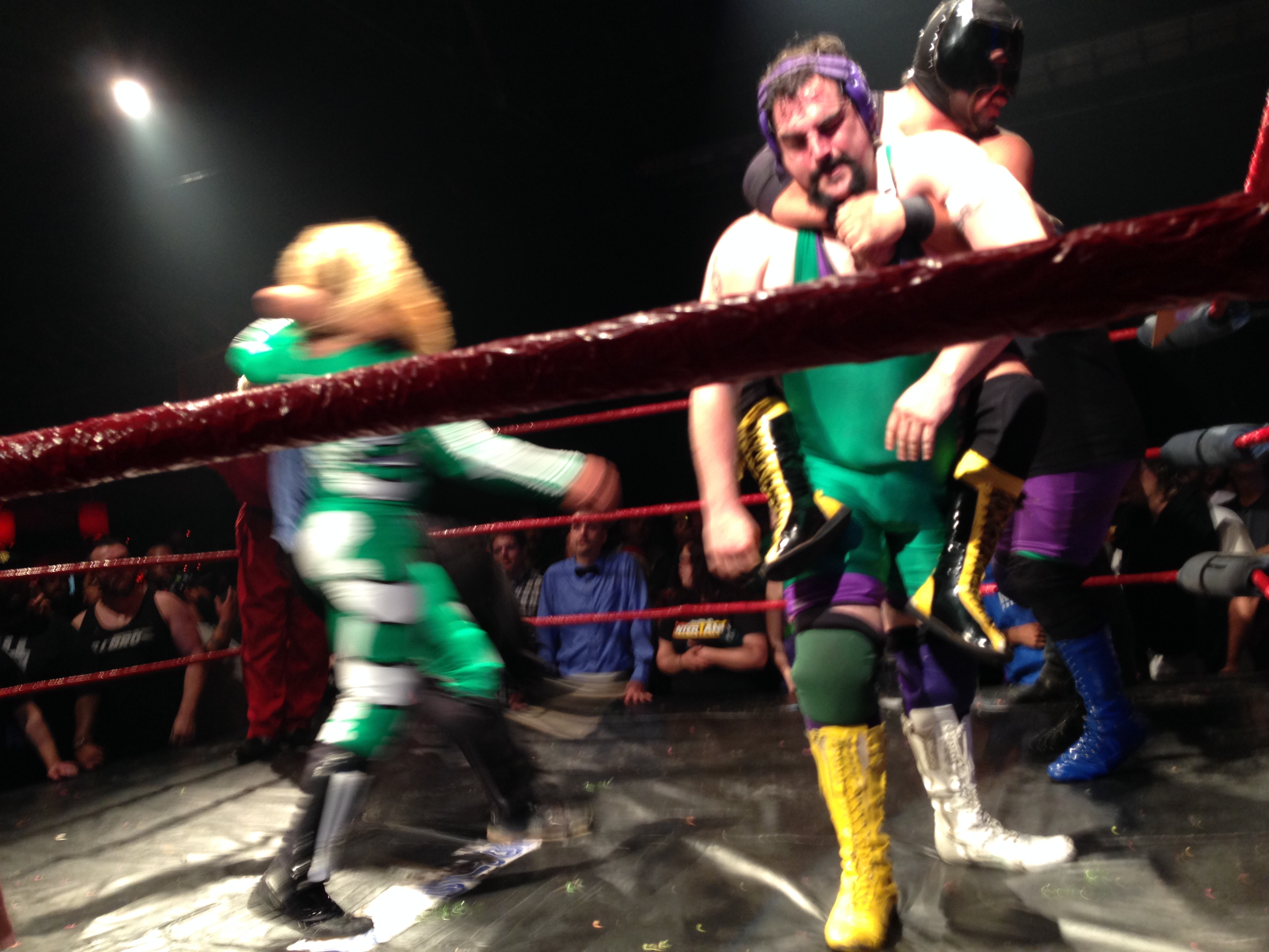 Wrestlers at Hoodslam